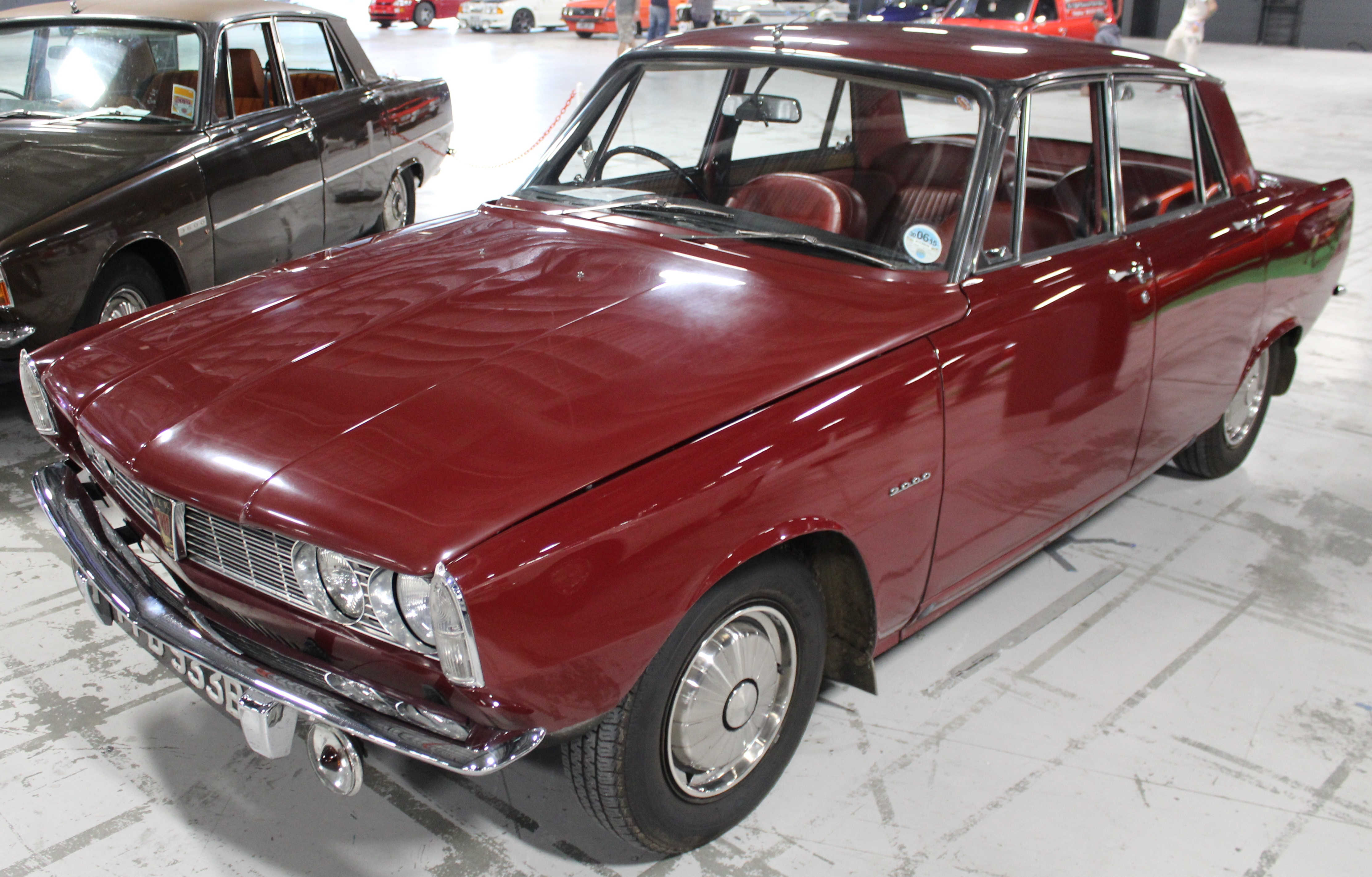 Rover 2000 (DVLA) first registered 3 July 1964, 1978 cc